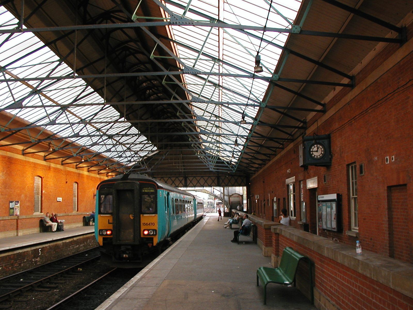 Beverley railway station, Beverley, East Riding of Yorkshire, England.Interior of the train shed.